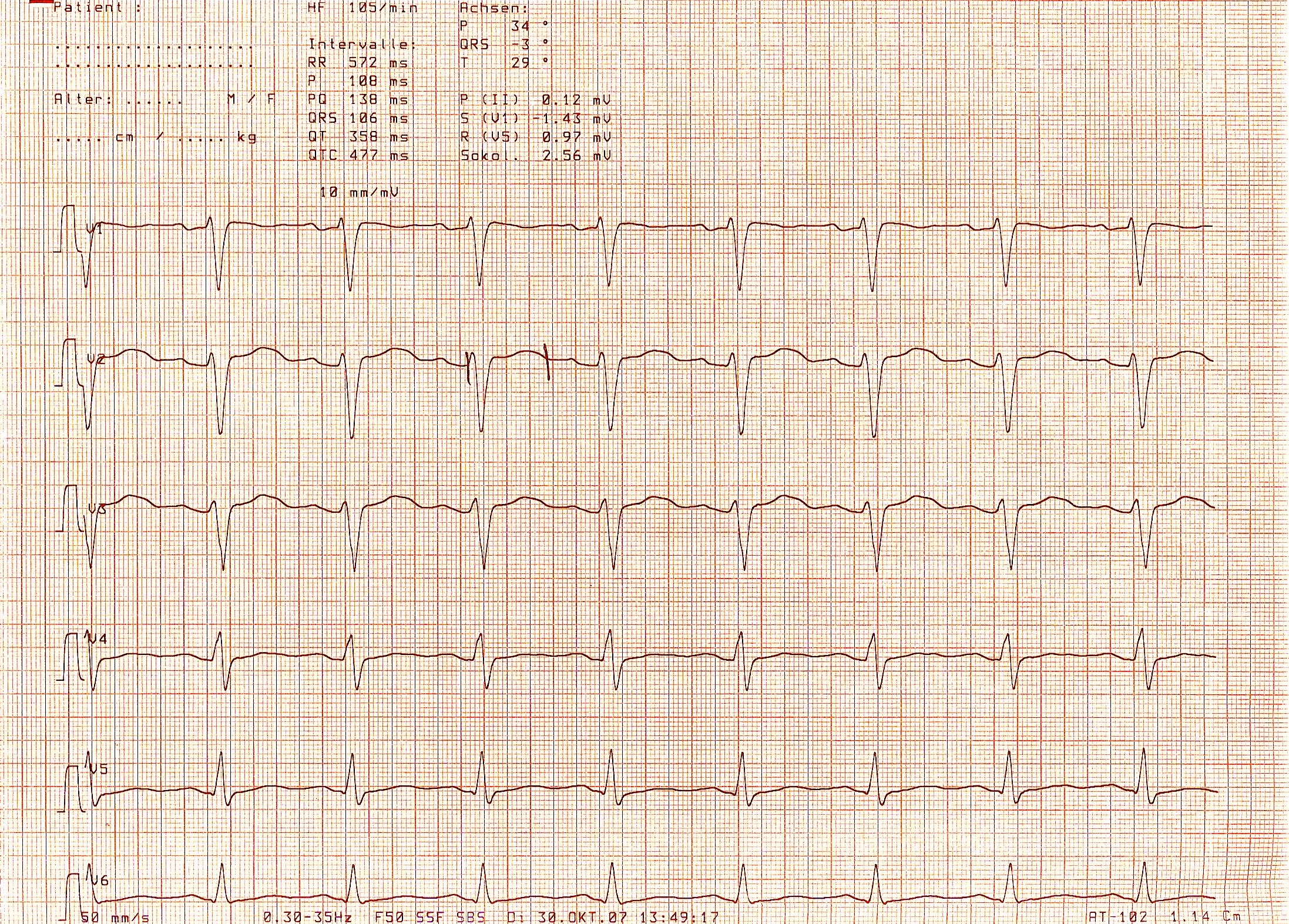 An ECG with prolonged QT interval.